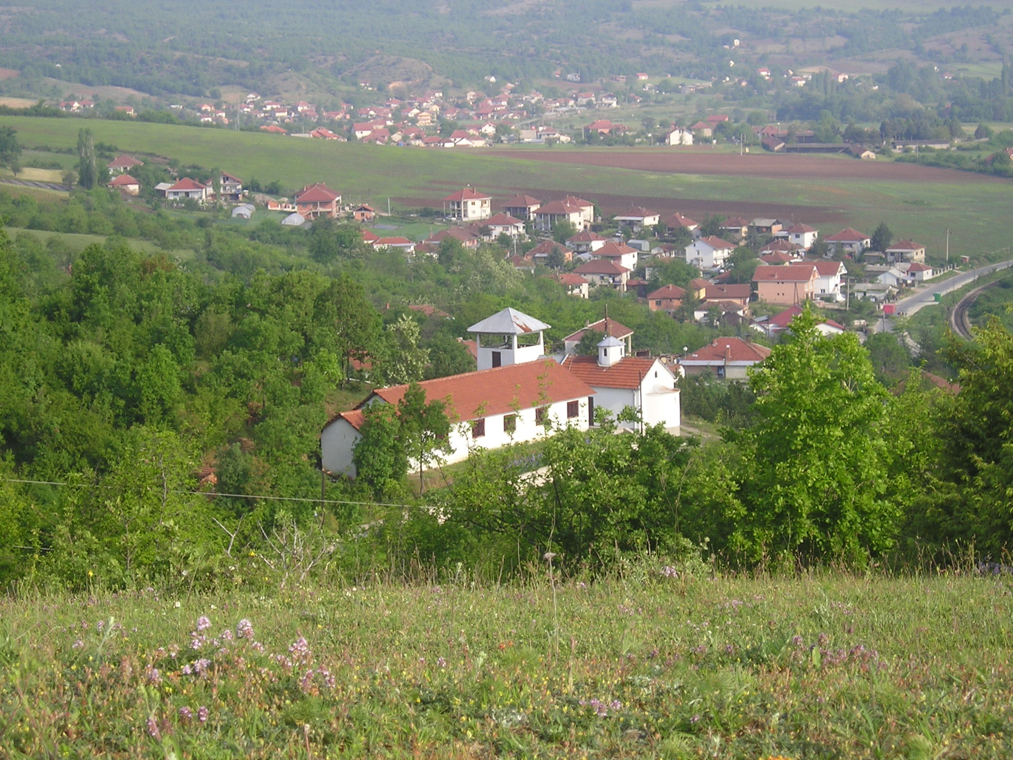 The church Sv.Georgija in Zelenikovo, Macedonia